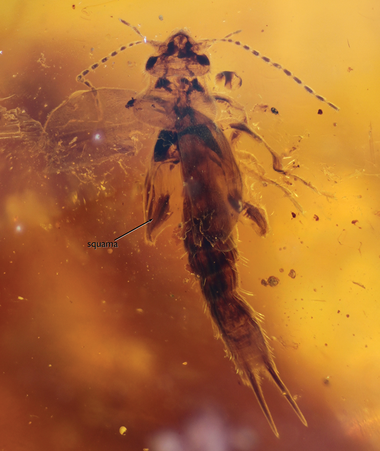 Figure Description: "Dorsal aspect photomicrograph of holotype female of Astreptolabis ethirosomatia gen. et sp. n. (AMNH Bu-FB20). In this orientation the head is slightly dipped forward making the postocular area appear minutely foreshortened relative to the compound eyes." Holotype specimen of Earwig Astreptolabis ethirosomatia from Burmese amber, Hukawng Valley, earliest Cenomanian (99ma). Part of the Collecions of the American Museum of Natural History